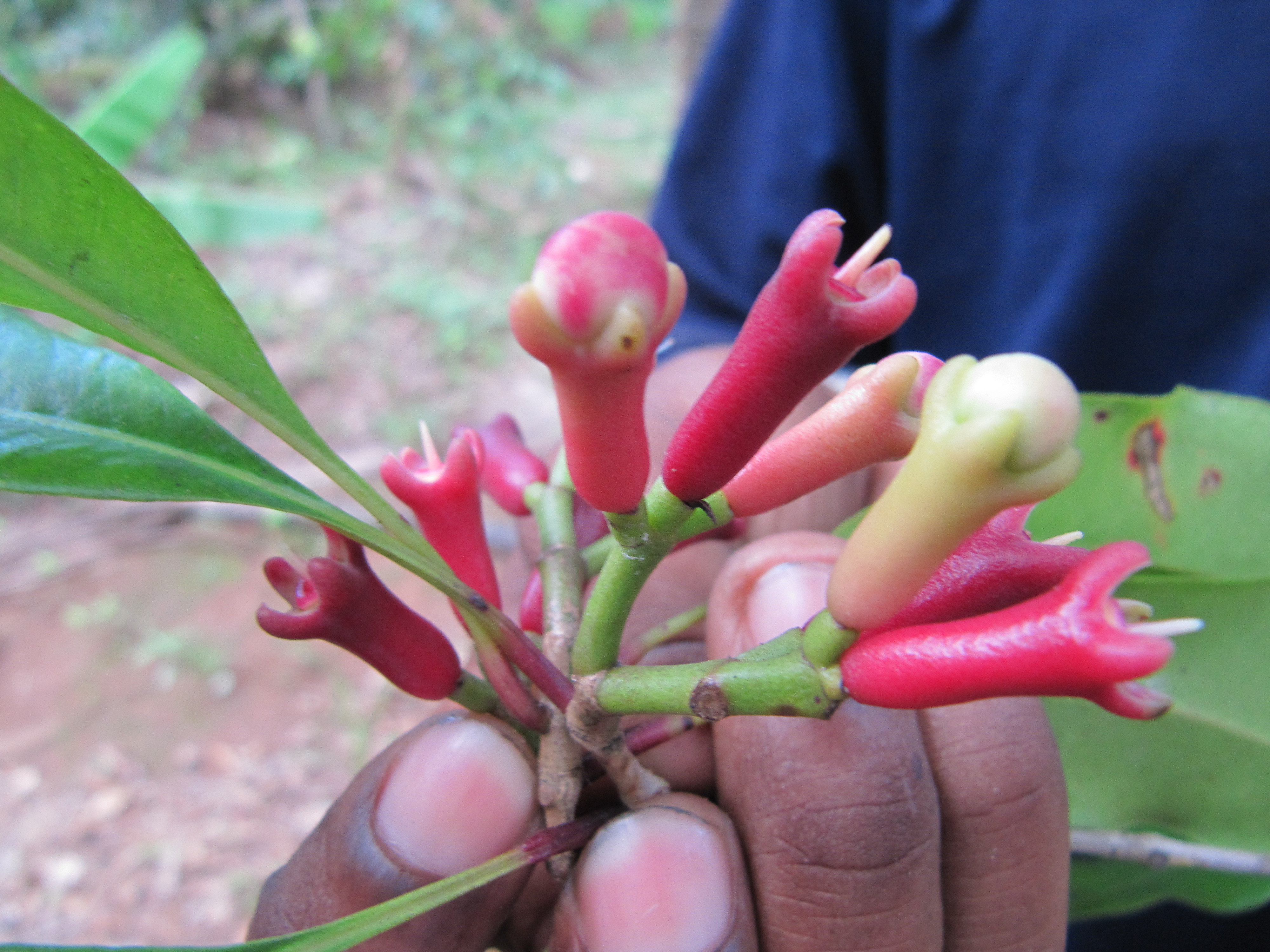 Fresh cloves in hand